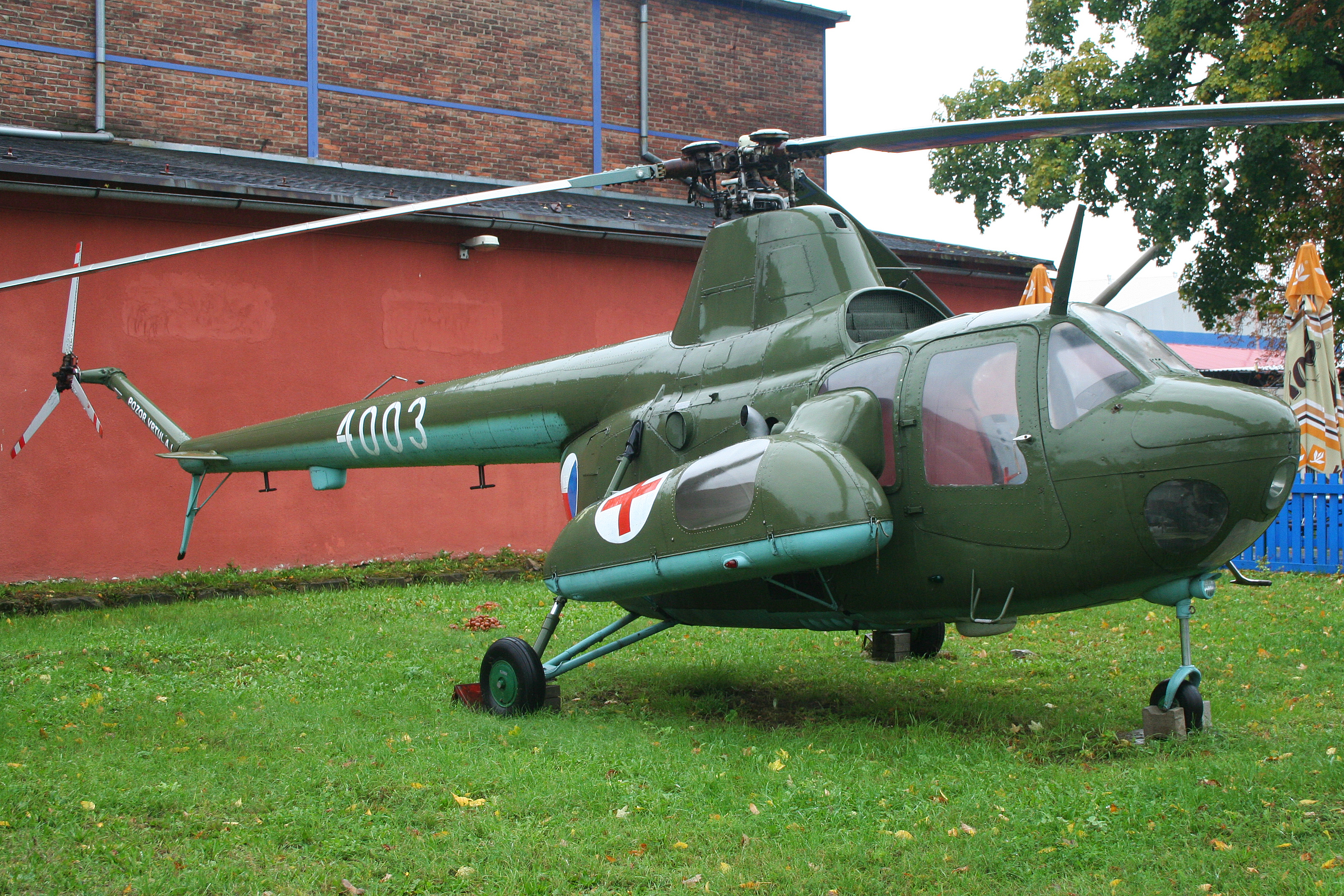 msn 404003. On display outside at the Kbely Museum, Czech Republic. 07-10-2012